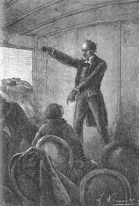 An ilustration from the novel "Around the World in Eighty Days" by Jules Verne painted by Alphonse de Neuville and/or Léon Benett.